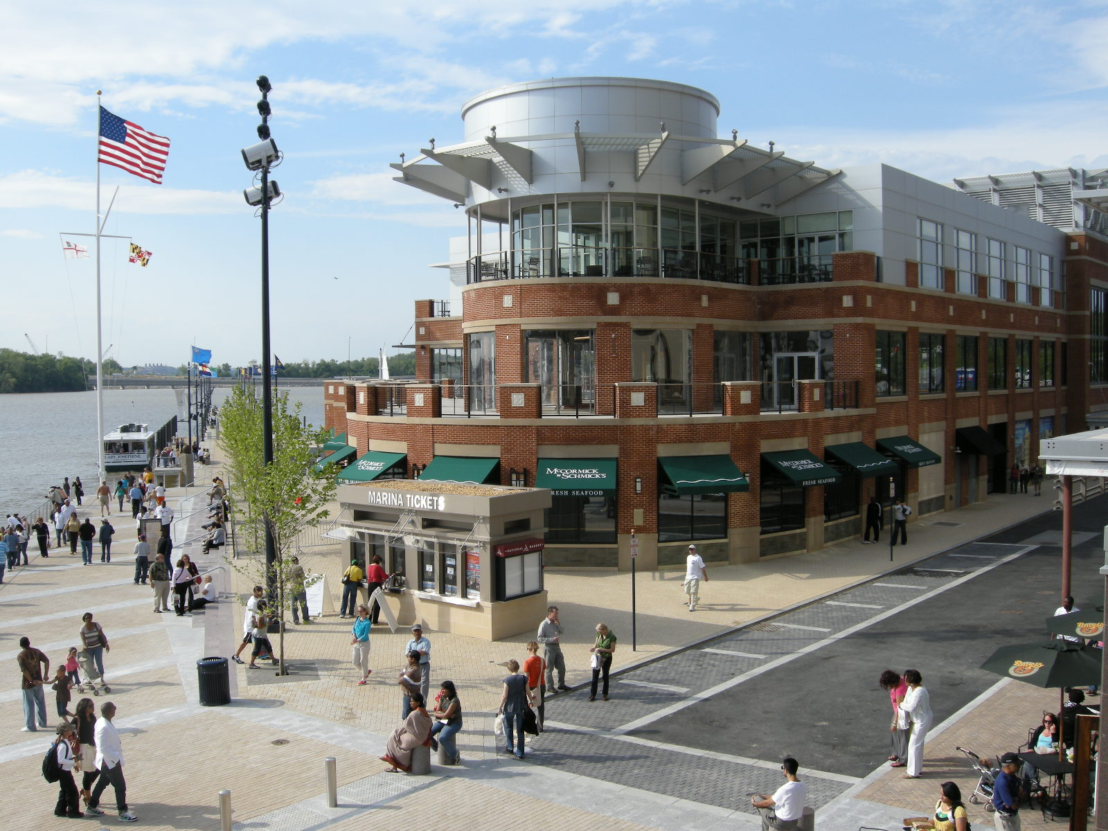 McCormick and Schmick's, National Harbor, Maryland